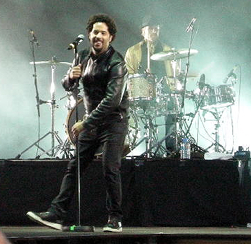 Adel Tawil with ICH+ICH in Salem Open-Air 2008